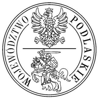 Seal of the Podlachian Voivodeship